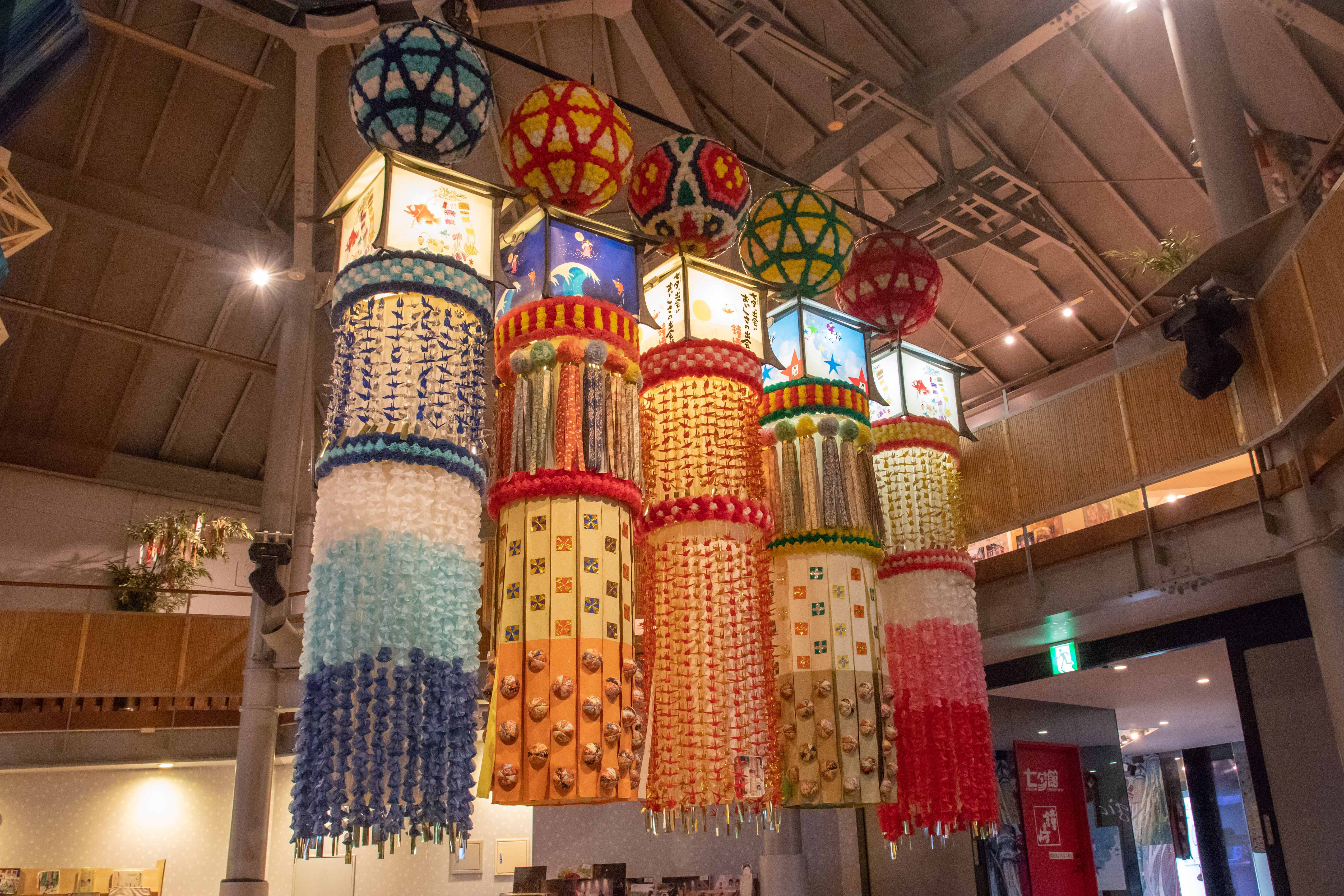 Sendai Tanabata on display at the Tanabata Museum（七夕ミュージアム）, Sendai, Miyagi Pref., Japan Canon EOS 80D + Sigma 17-70mm F2.8-4 DC Macro OS HSM